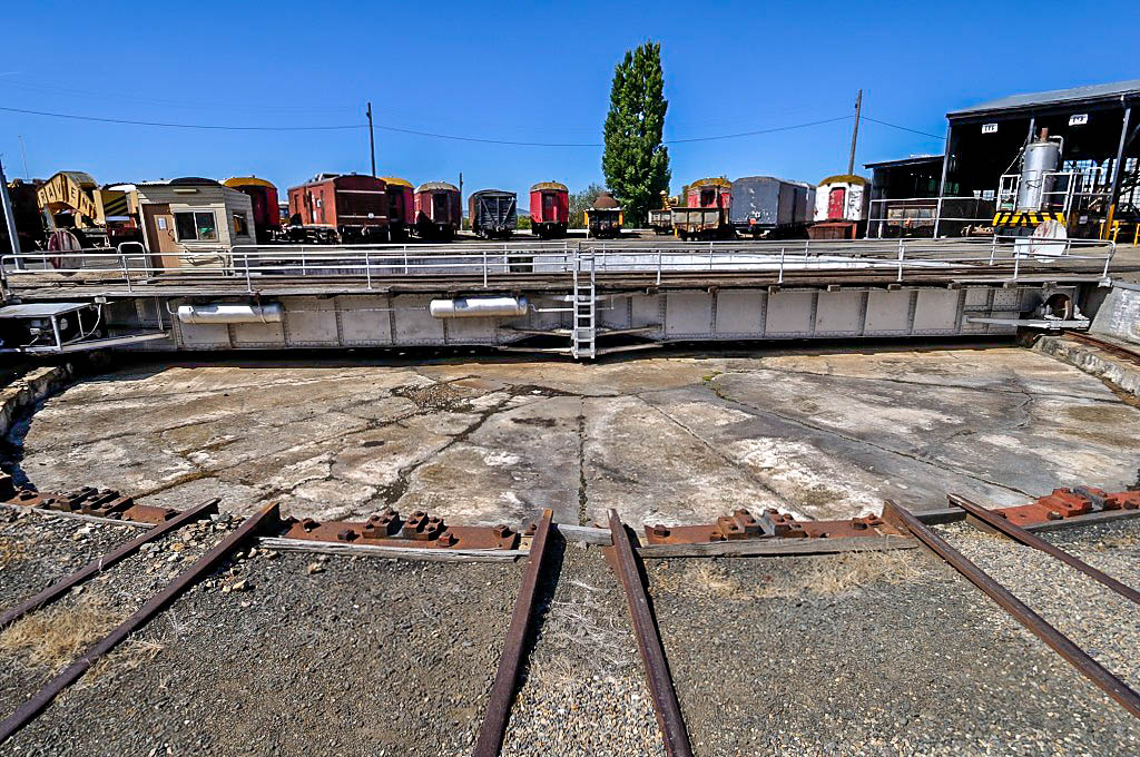 Goulburn Roundhouse Museum Turntable